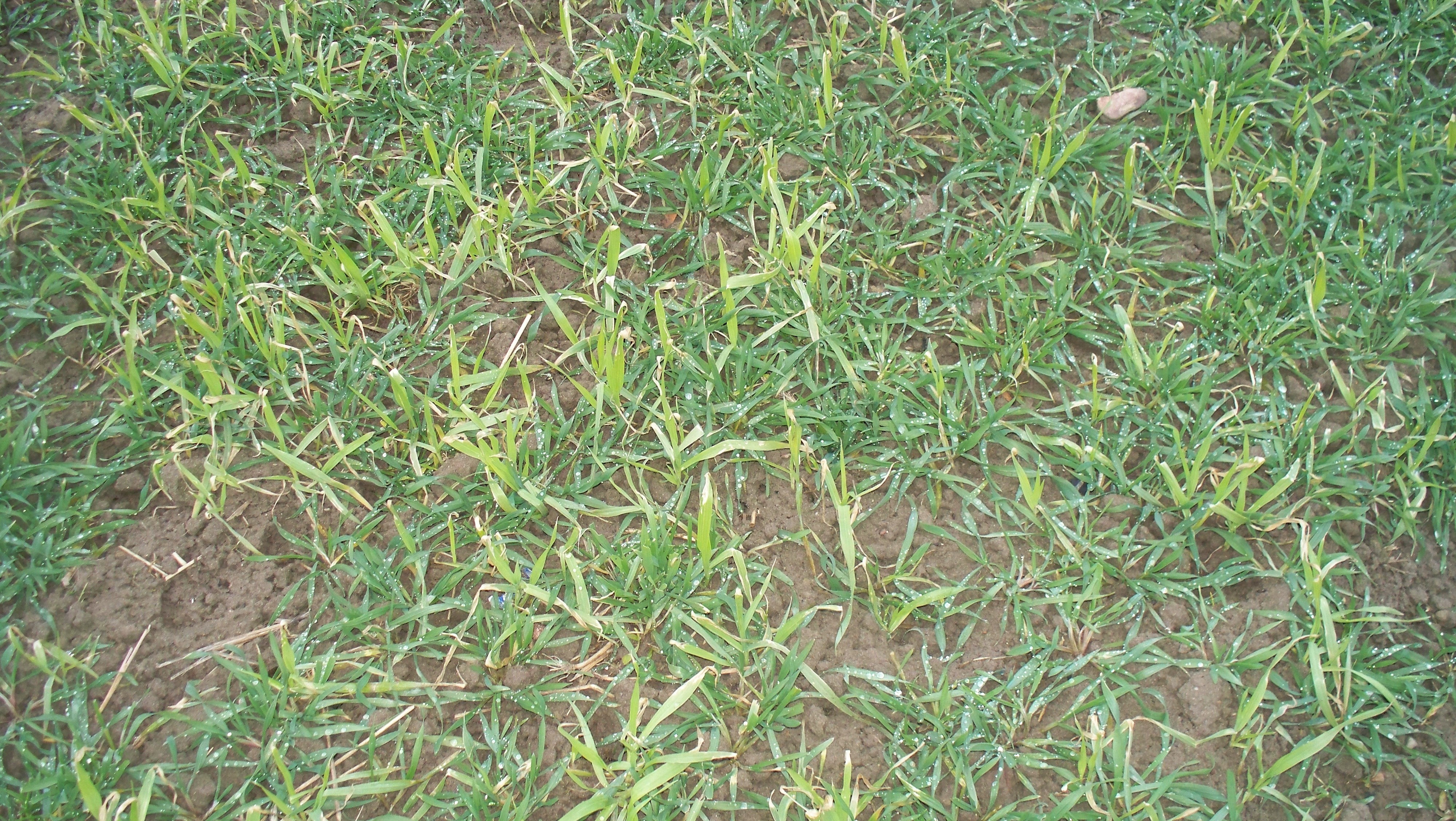 weeds: barley and oats in winter rye